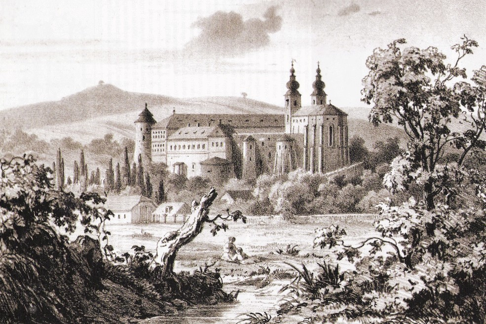 Abbey of Hronský Beňadik (Garamszentbenedek) in 19th century